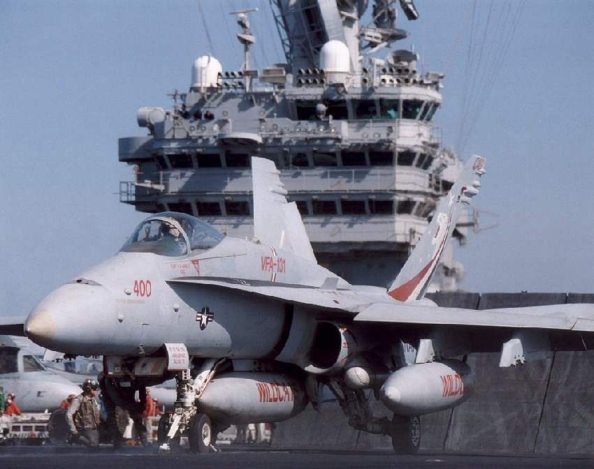 An F/A-18C Horner of VFA-131 aboard a carrier